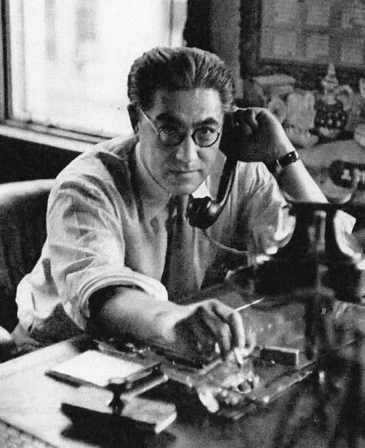 Takashi Sugawara